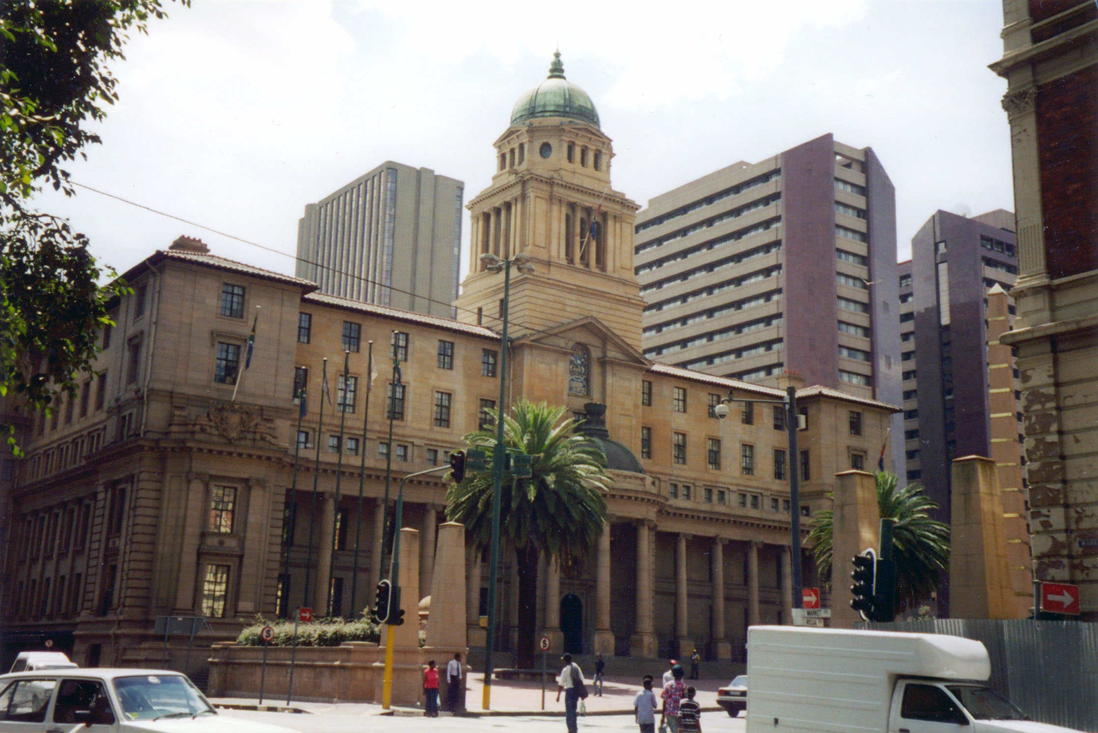 Johannesburg City Hall, Market Street, Johannesburg. Now the home of the Gauteng Provincial Legislature.